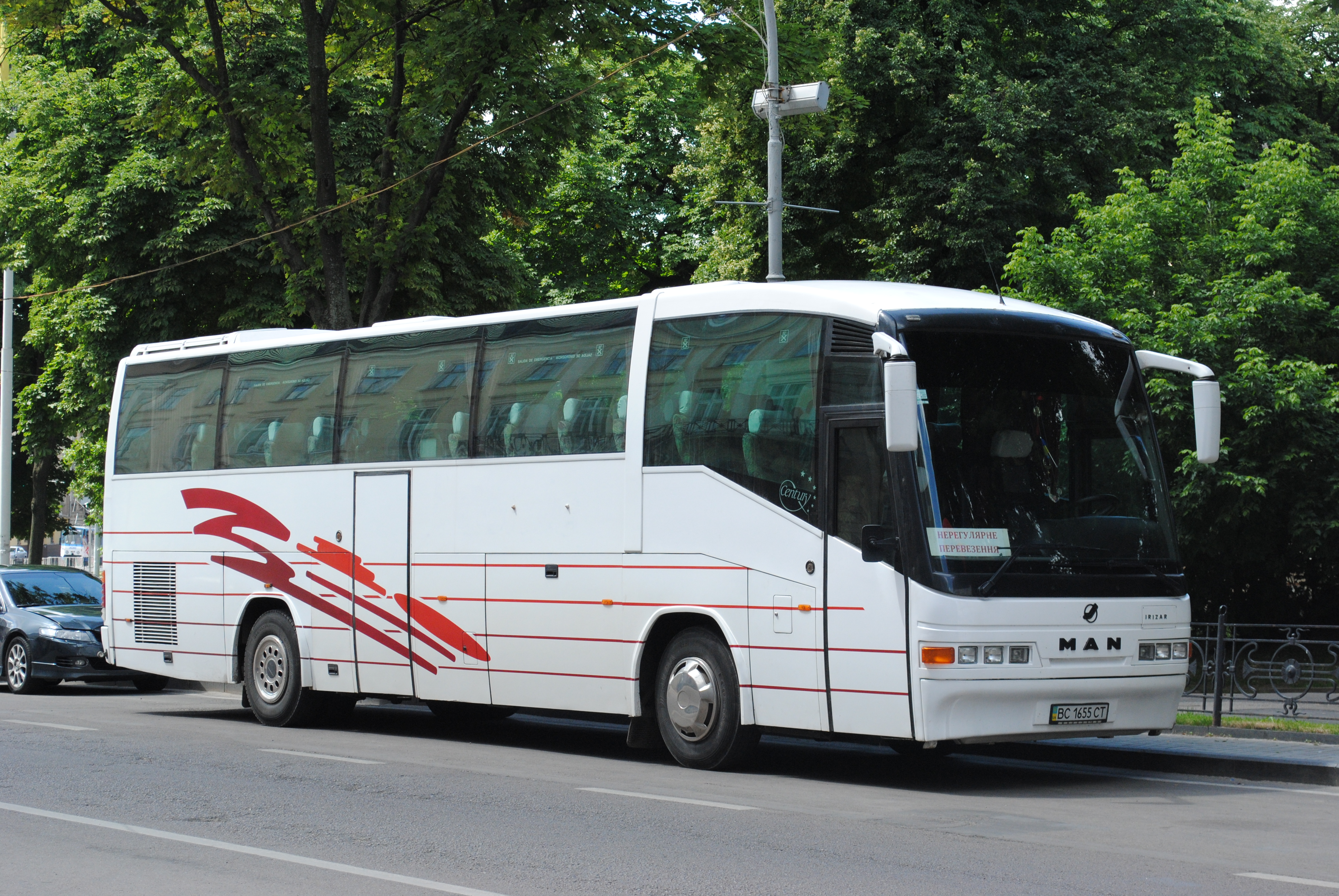 Irizar Century 12.35 from Lviv oblast.